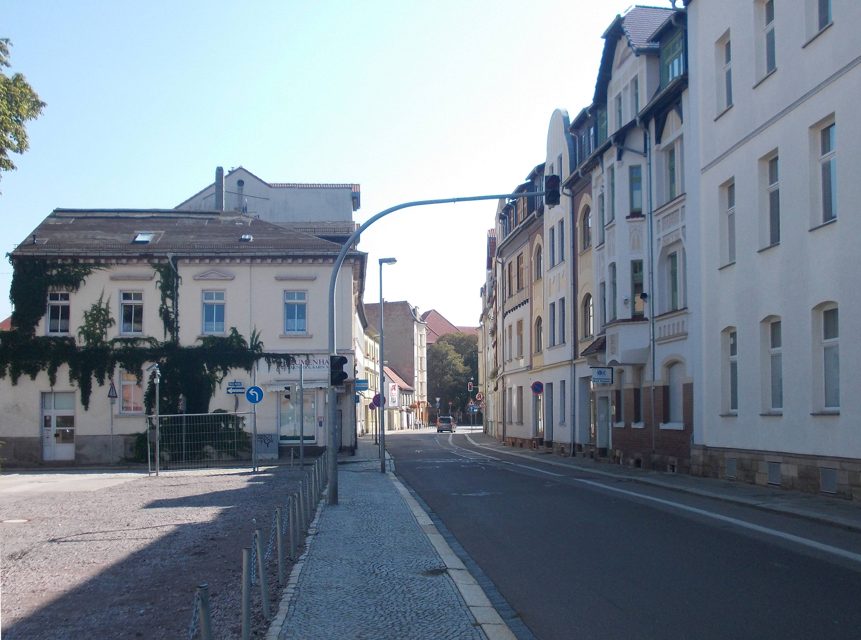 Eastern part of Beuditzstrasse in Weissenfels (district: Burgenlandkreis, Saxony-Anhalt)